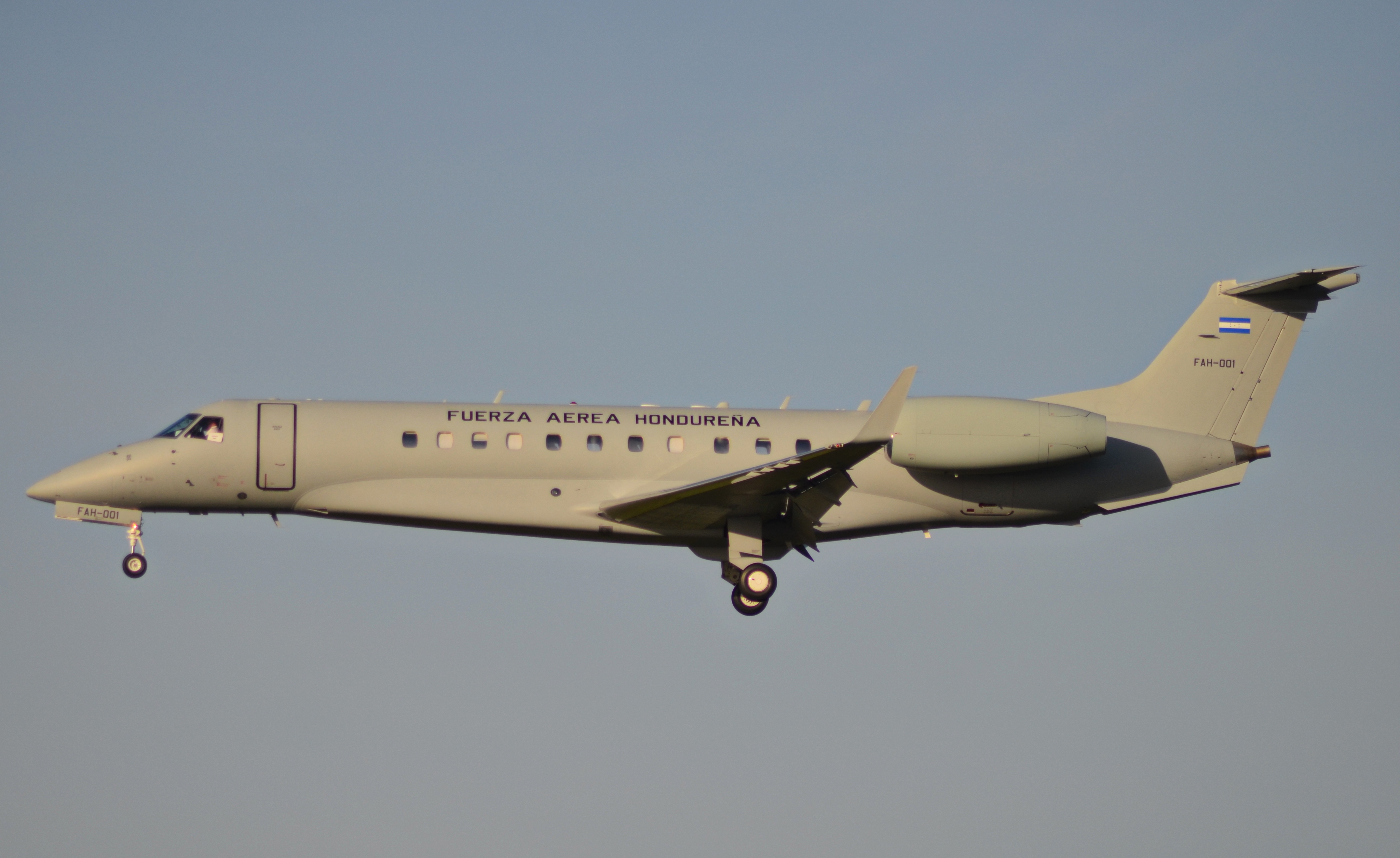 Embraer EMB135BJ Honduras Air Force FAH-001